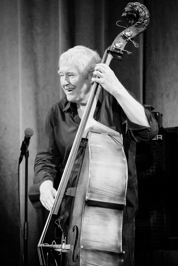 Arild Andersen with Joshua Redman et alii at Victoria Teater. The concert took place on 24. April 2018 in Oslo and was part of Nasjonal Jazzscene 10 year jubilee celebration. Lineup: Joshua Redman (saxophone), Bugge Wesseltoft (piano), Arild Andersen (double bass), Per Oddvar Johansen (drums) Jan Ole Otnæs (introduction)